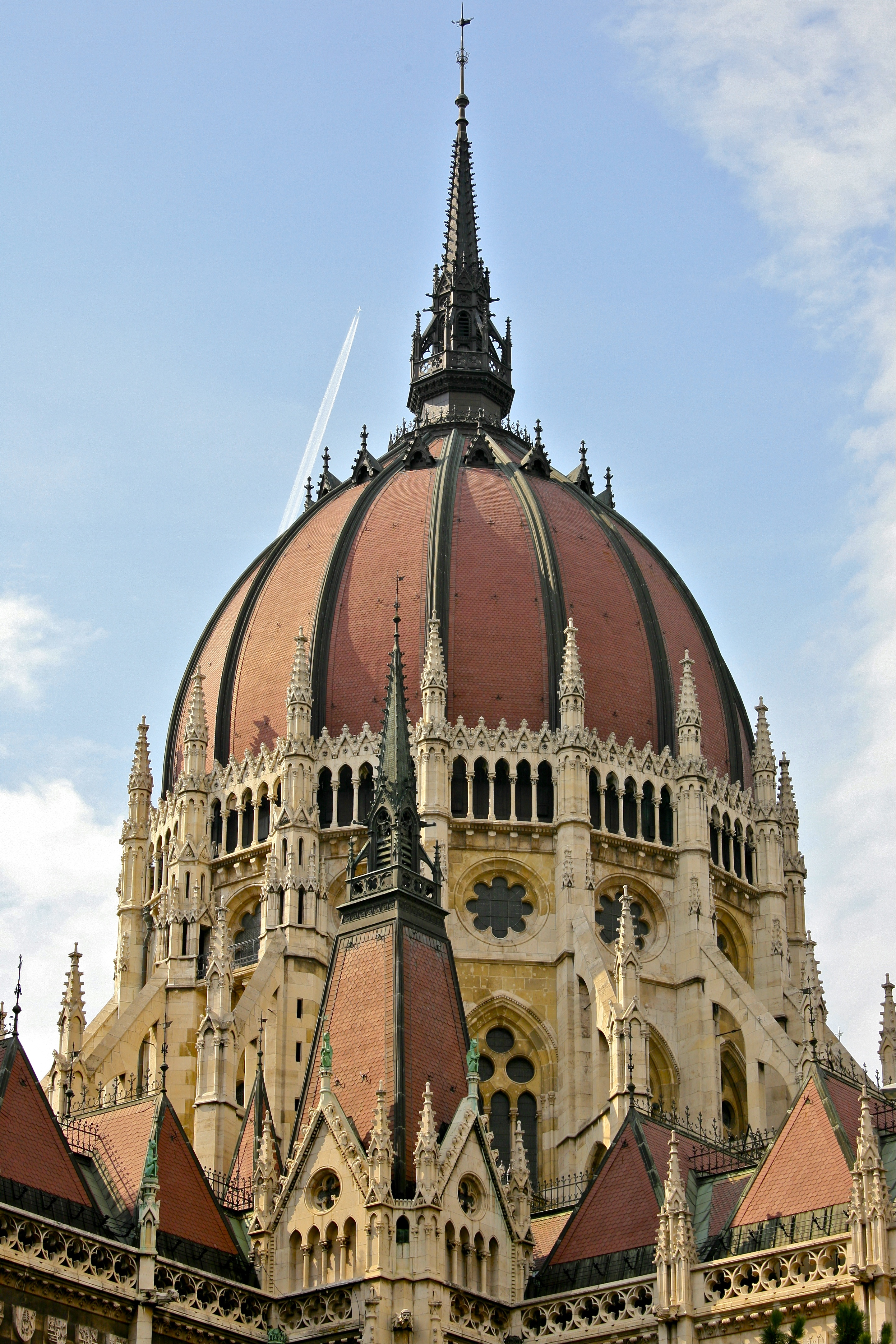 Aircraft by the Parliament House